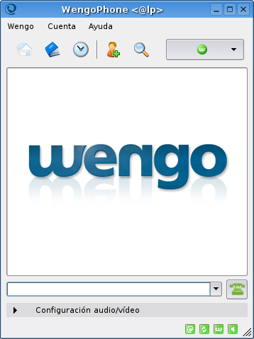 This is a screenshot of the OpenWengo Classic in Spanish which is under the GNU GPL so no so no restriction on the UI use.